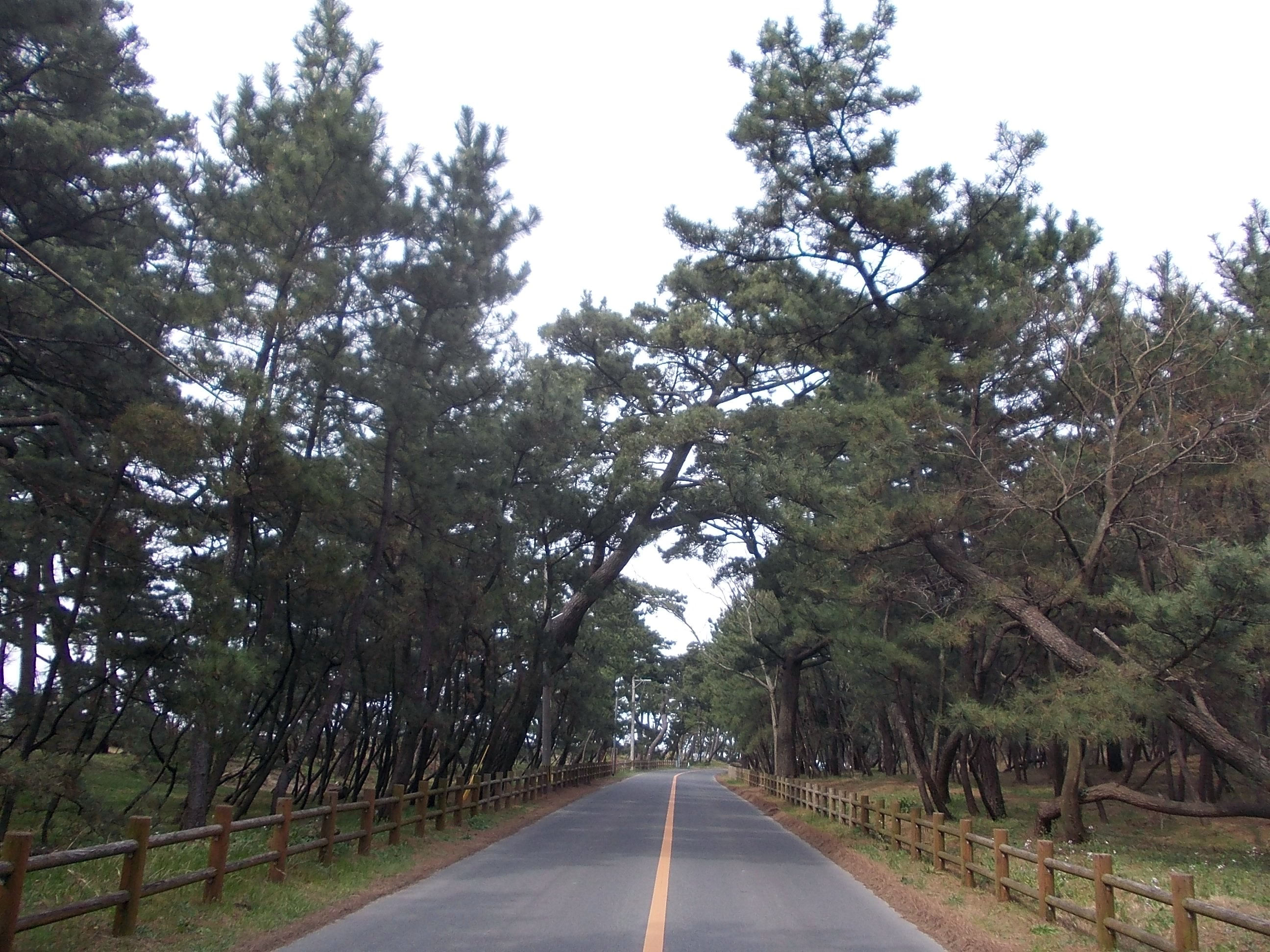 Satsukimatsubara, Munakata, Fukuoka, Japan